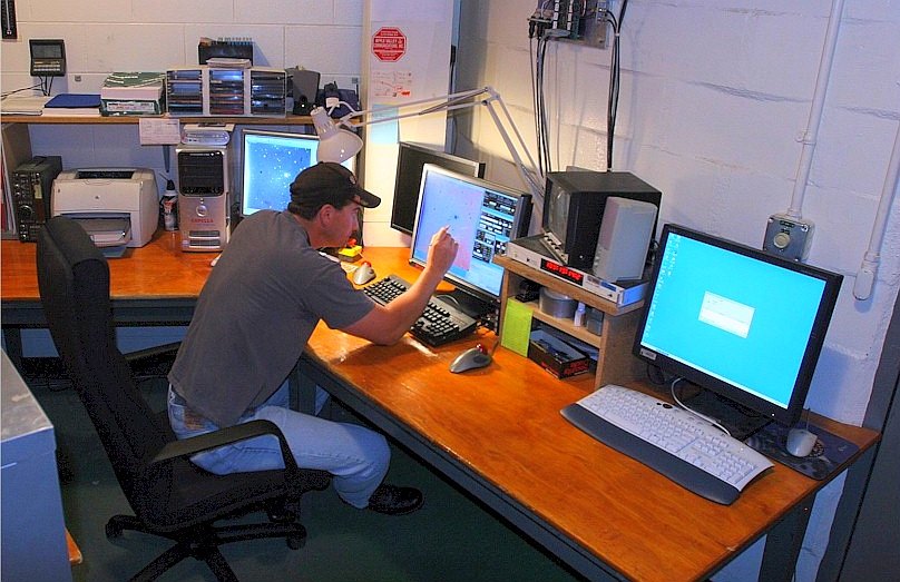 Table Mountain Observatory control room observing with the 0.6m telescope